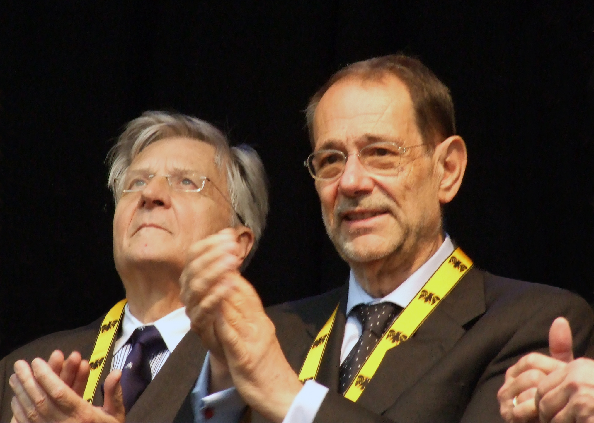 Jean-Claude Trichet and Javier Solana, Karlspreis 2008